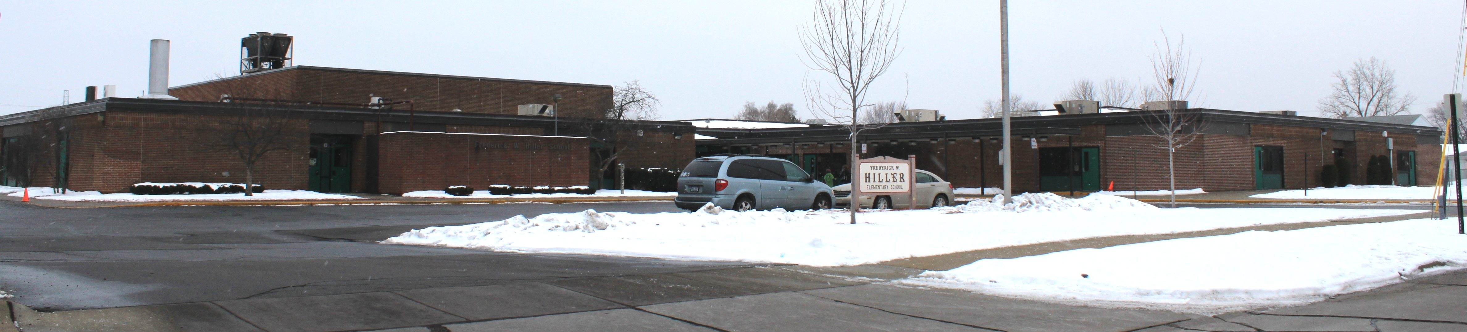 Hiller Elementary School, 400 East LaSalle, Madison Heights, Michigan